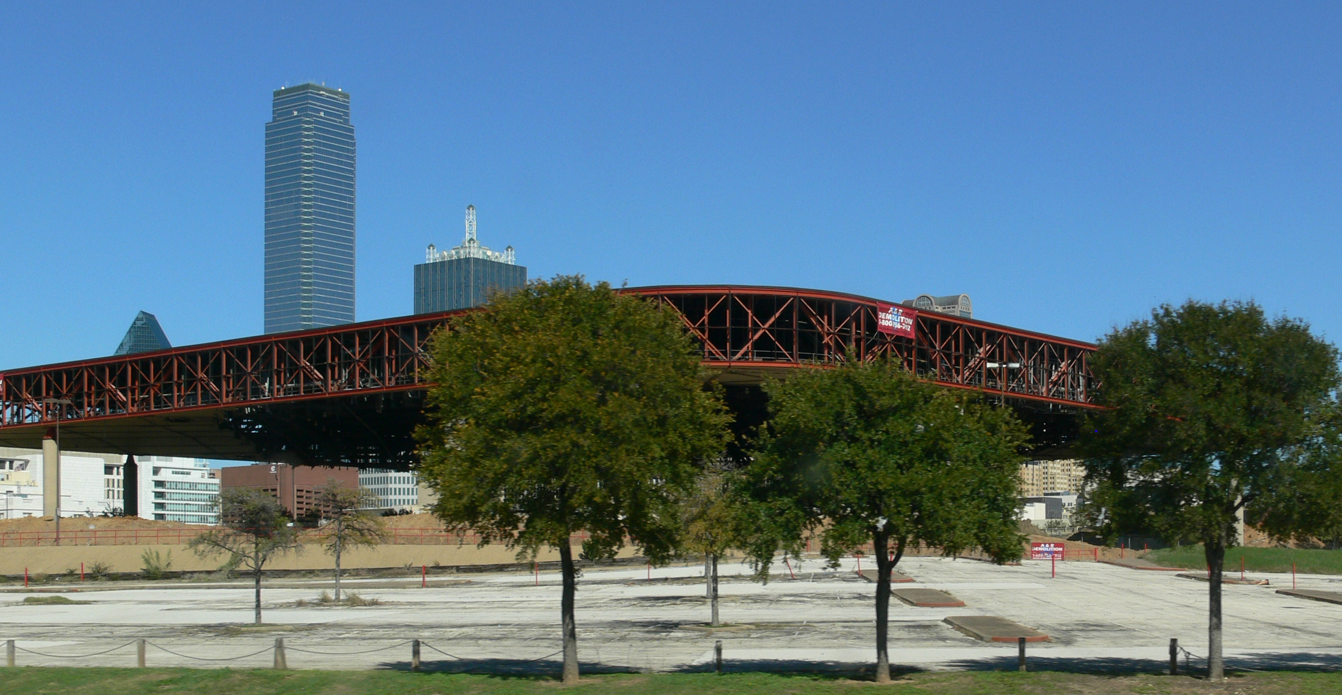 Reunion Arena, Dallas, Texas; partly demolished